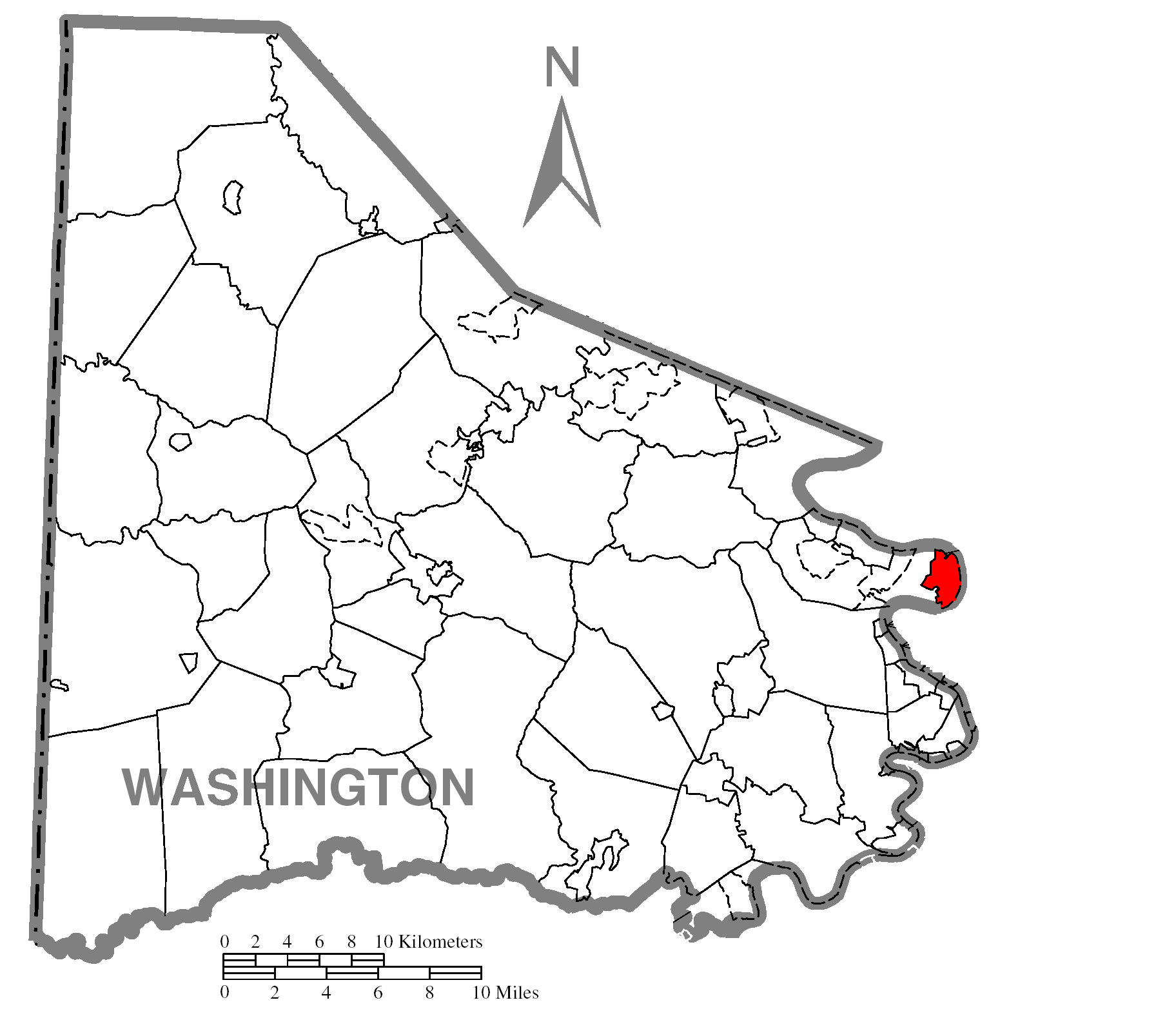 Map of Washington County higlighting Donora.